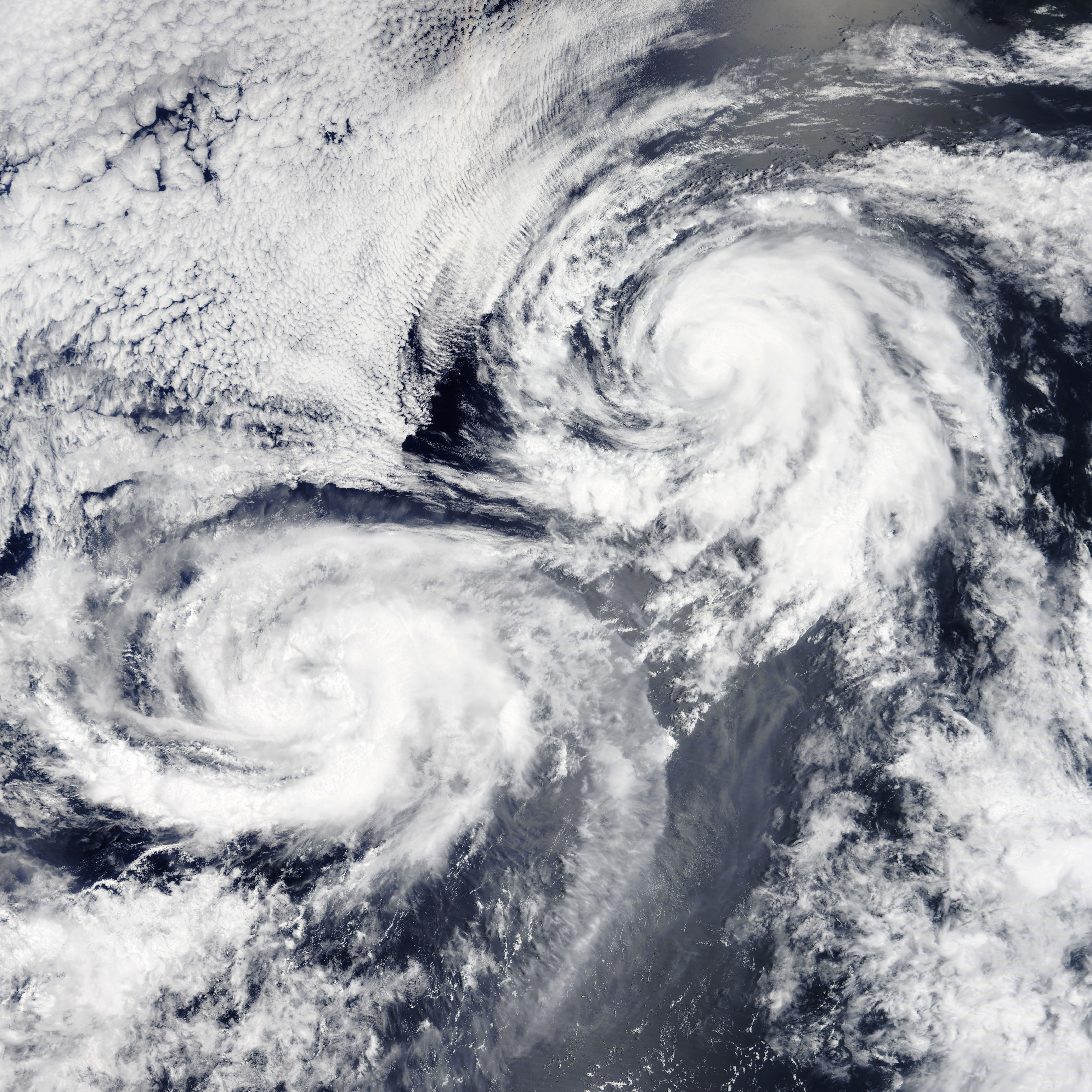 A satellite image of Tropical Storms Hilary and Irwin interacting over the eastern Pacific Ocean at 18:45 UTC on July 28 2017.